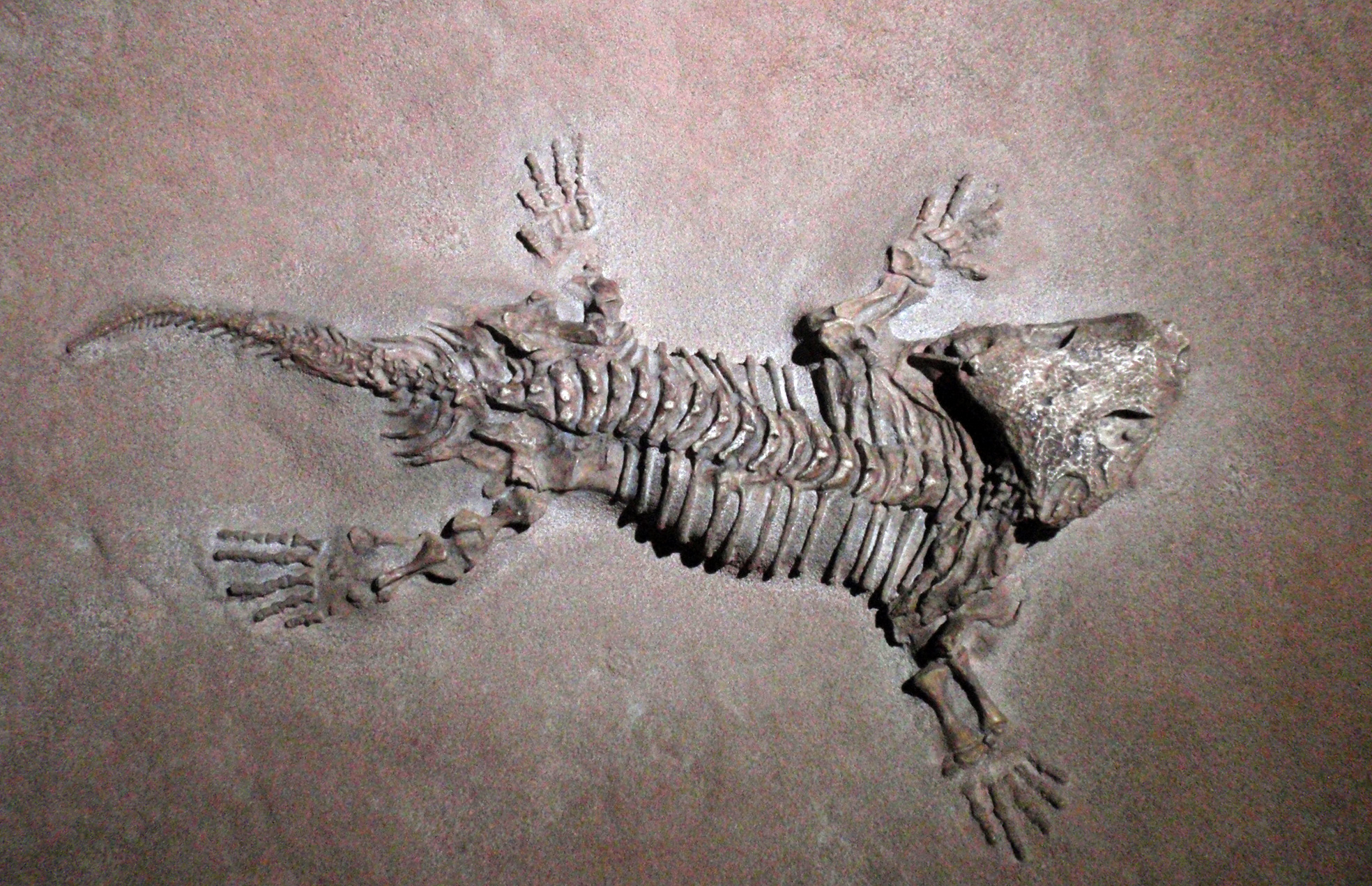 Exponat in the Museo Elder Las Palmas de Gran Canaria